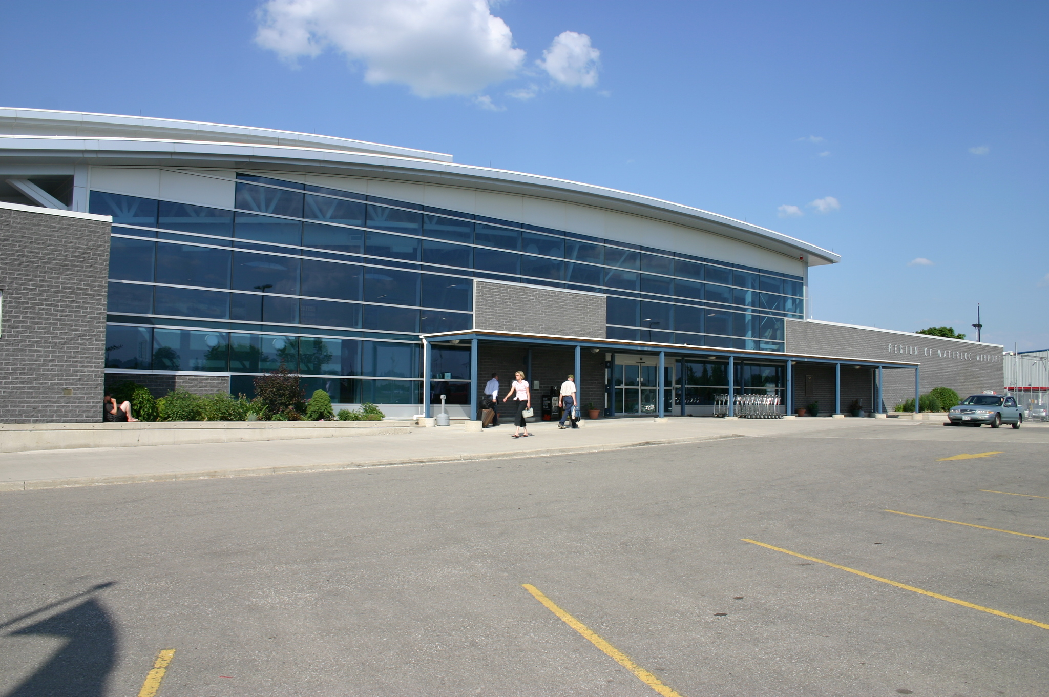 This picture was taken by User:JayzRaptorz in the parking lot of the Region of Waterloo International Airport.